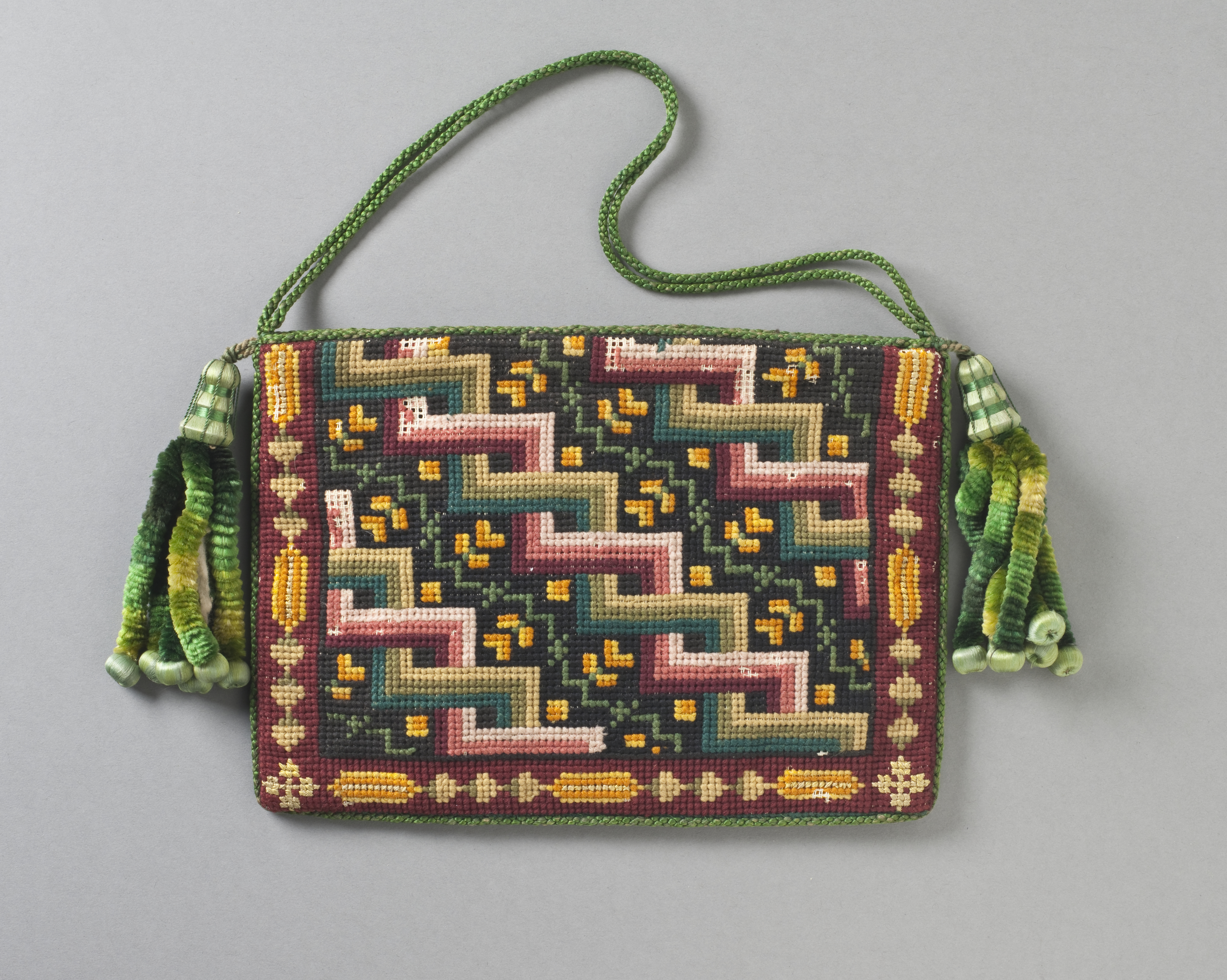 Woman's Purse c. 1840. Cotton canvas with wool needlepoint (Berlin work), silk-braided cord, and silk chenille tassels, Europe, 6 x 8 in. (15.24 x 20.32 cm), Costume and Textiles collection, M.2007.211.280.